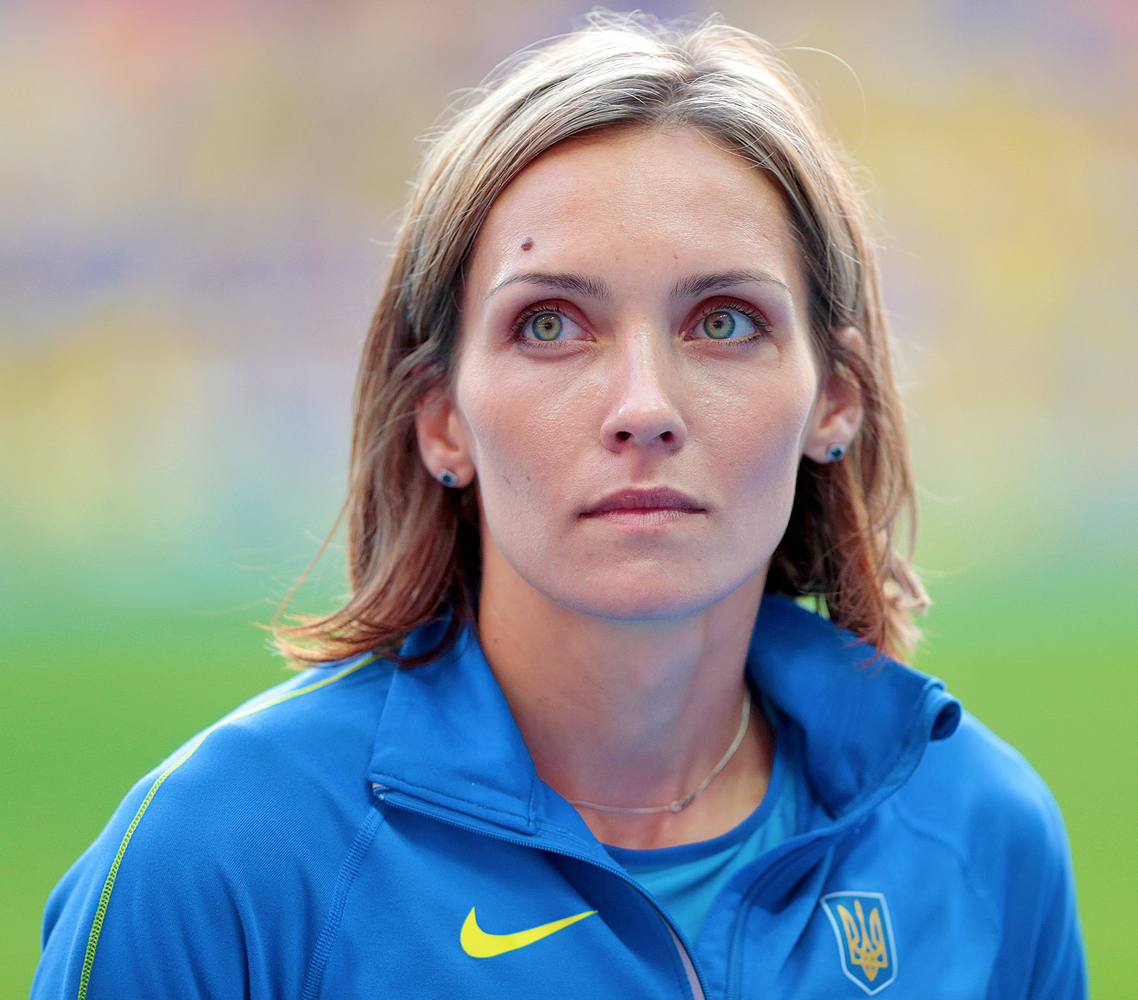 Olga Saladuha on 14th IAAF World Championships in Athletics